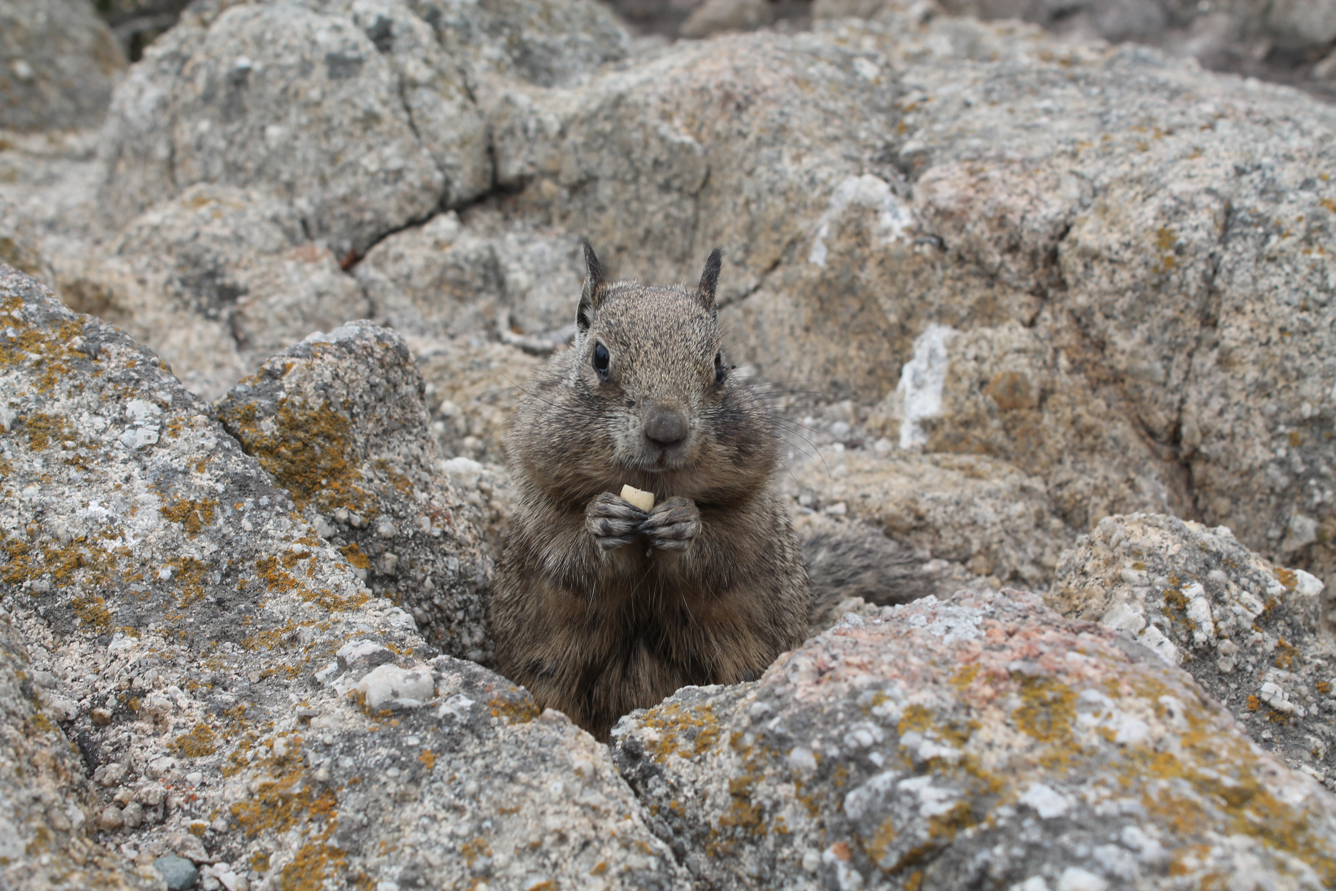 A California ground squirrel eats a peanut in Monterey, CA.